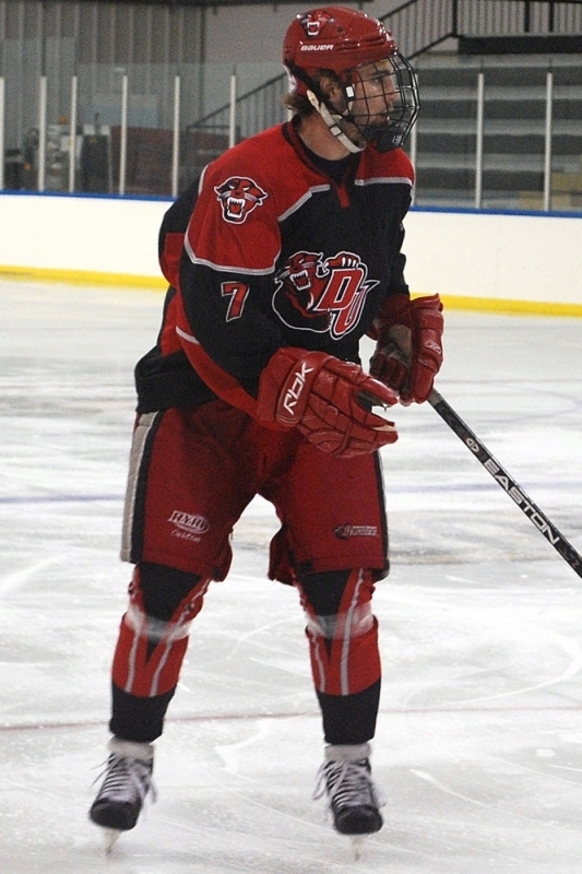 Davenport University Ice Hockey player in an away game vs. Lindenwood University on September 24, 2010